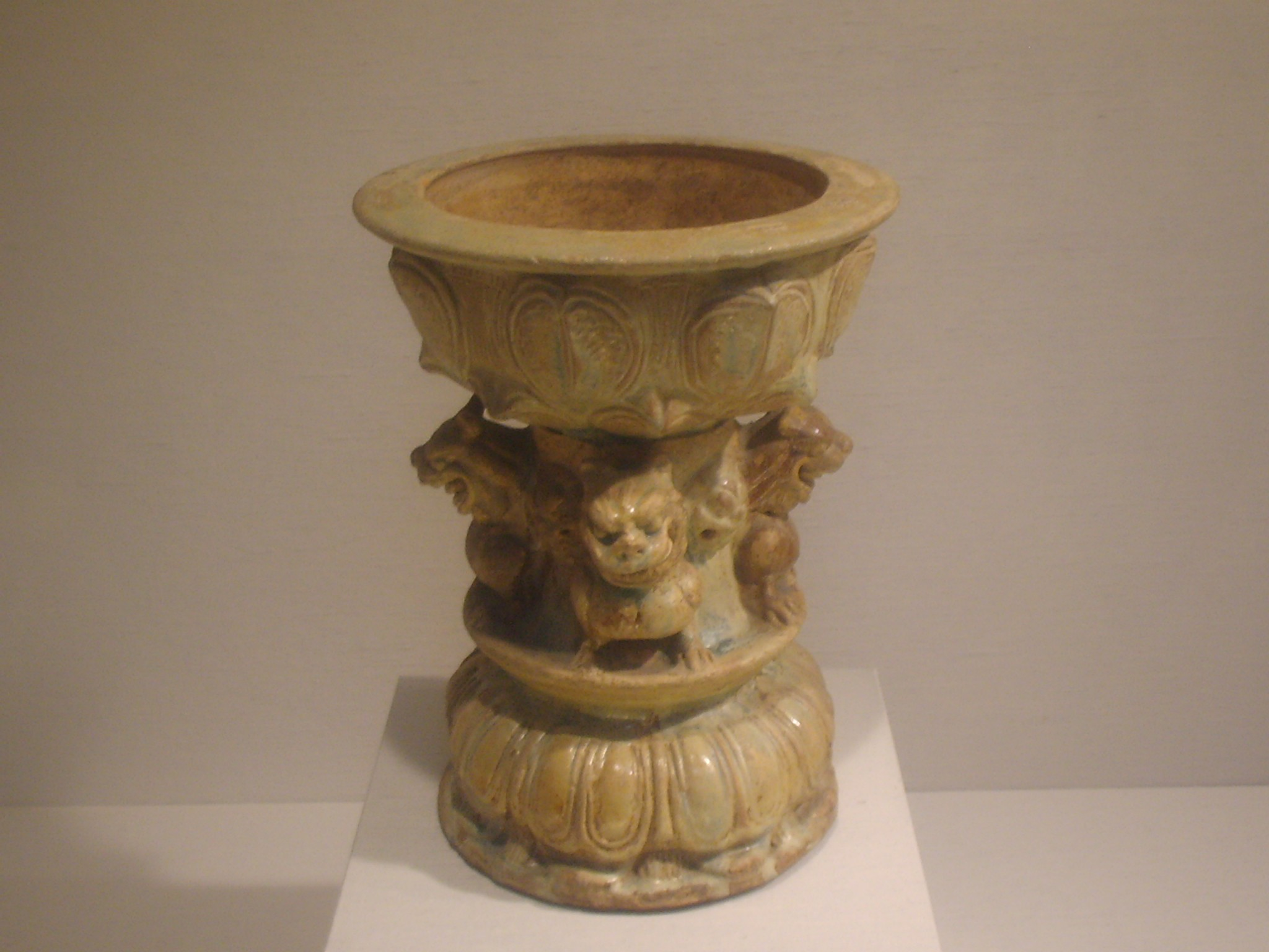 A Chinese footed lamp made of earthenware with relief decoration under a green and brown glaze, made during the late Northern Dynasties or Sui Dynasty (i.e. second half of the 6th century AD). The lions seen here are depicted as defenders of the Buddhist faith. The two types of lotus petal reliefs seen at the bottom of the vessel represented a popular motif in 6th century Buddhist art.